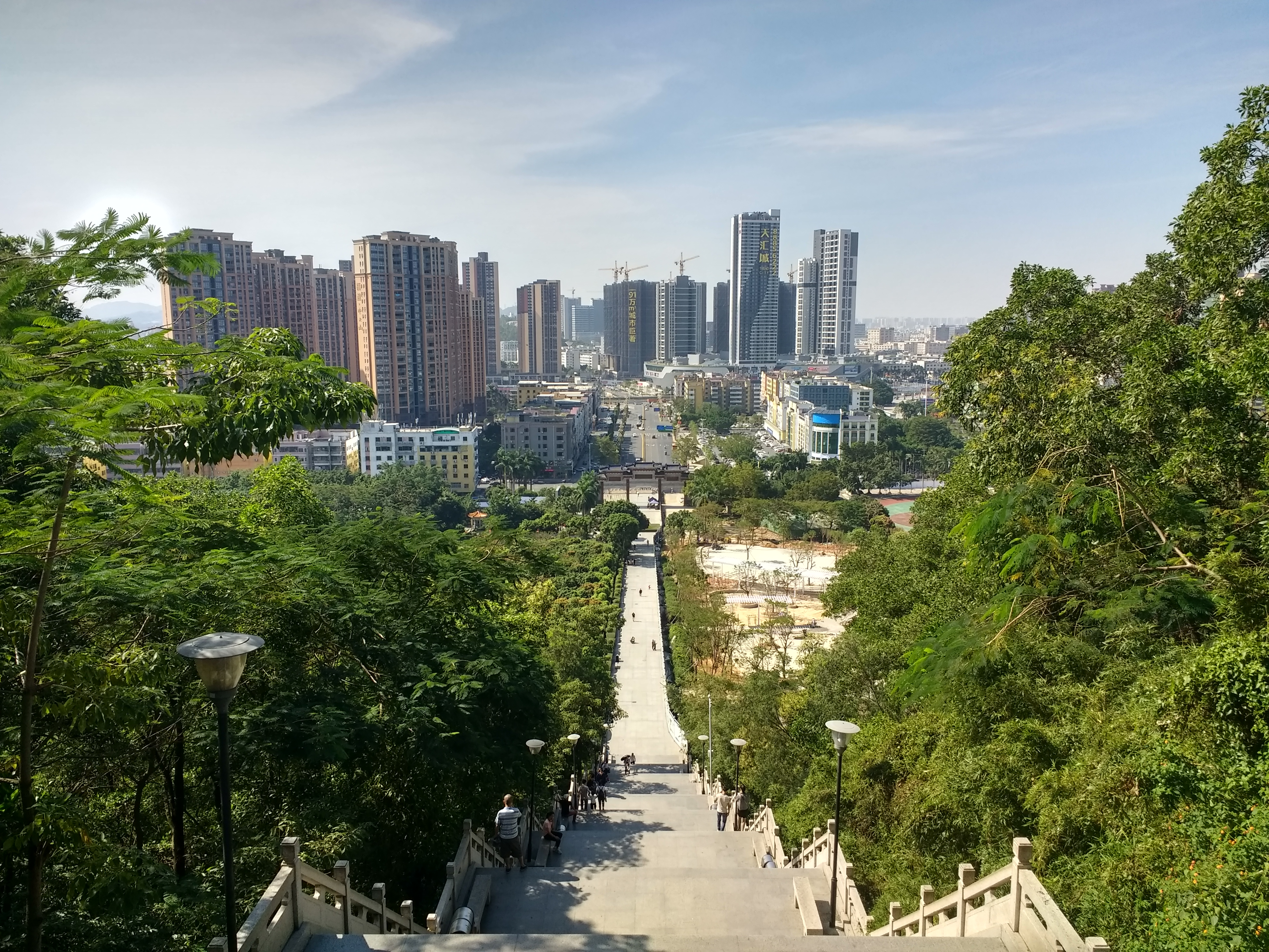 View from Honghua Mountain in Gongming Subdistrict, Guangming District, Shenzhen.